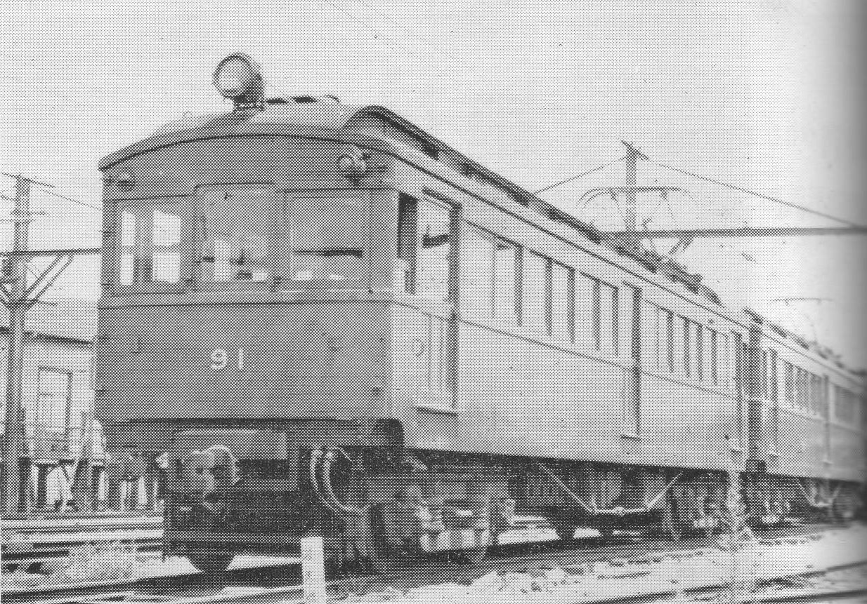 Hankyu Railway 90 Series EMU #91